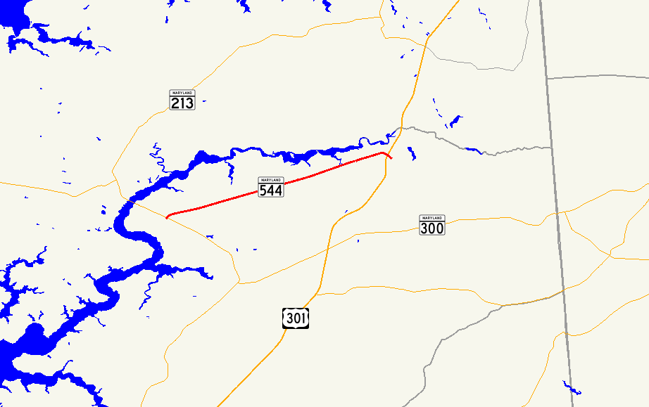 Map of Maryland Route 544